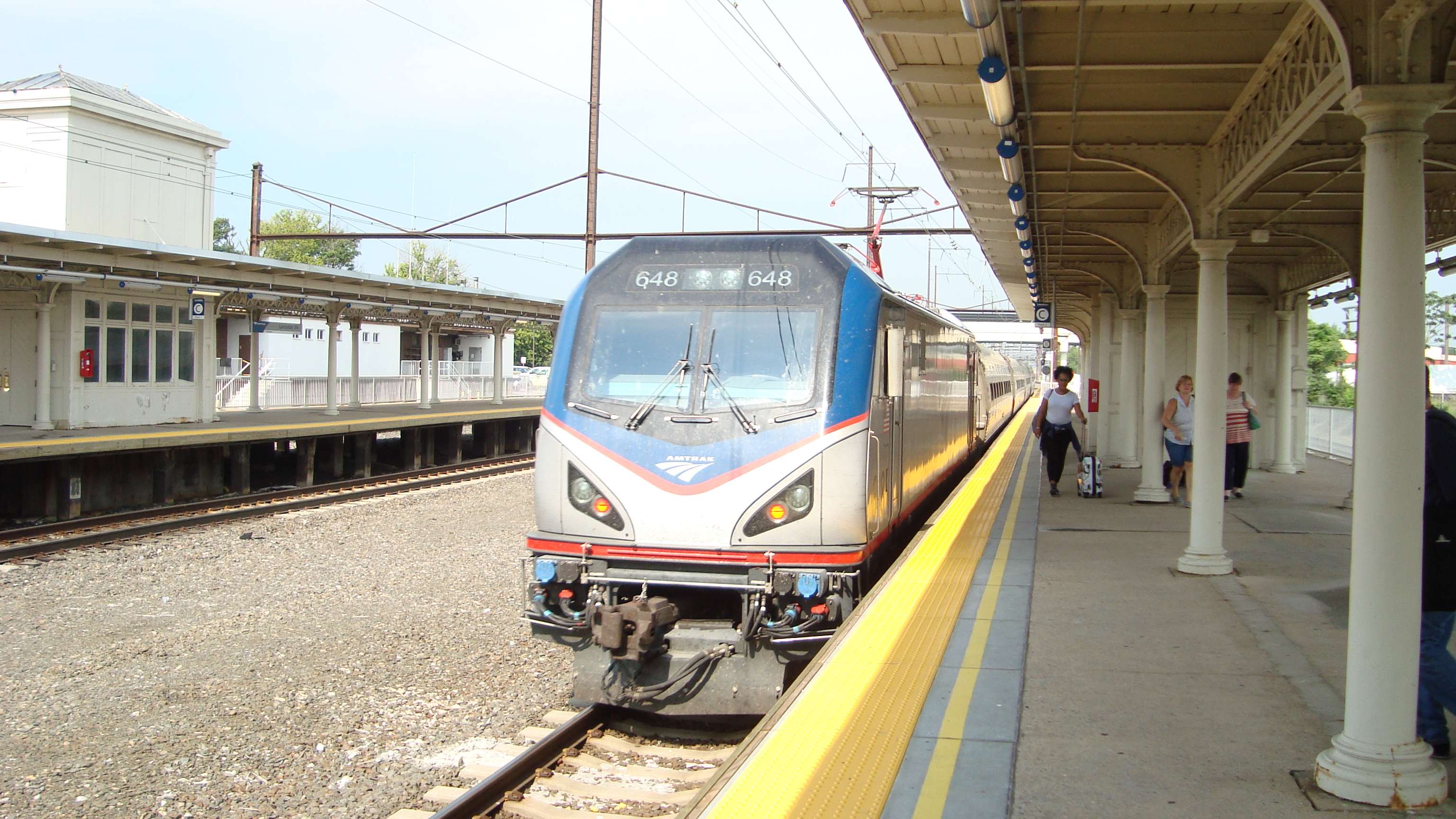 Amtrak ACS-64 #648 in push-pull mode on a Keystone Service train at Lancaster in 2017